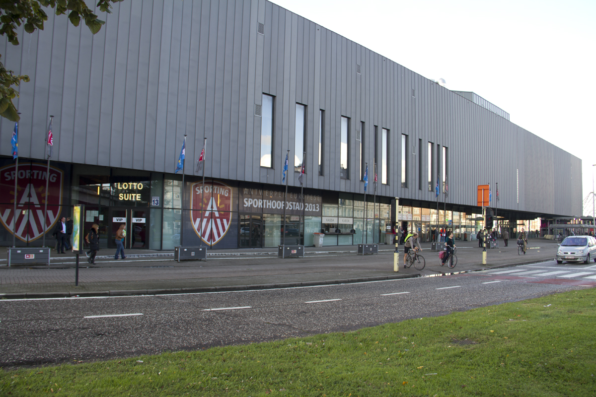 2013 3-cushion World Championship at the Lotto Arena in Antwerp, Belgium. Outdoor view.